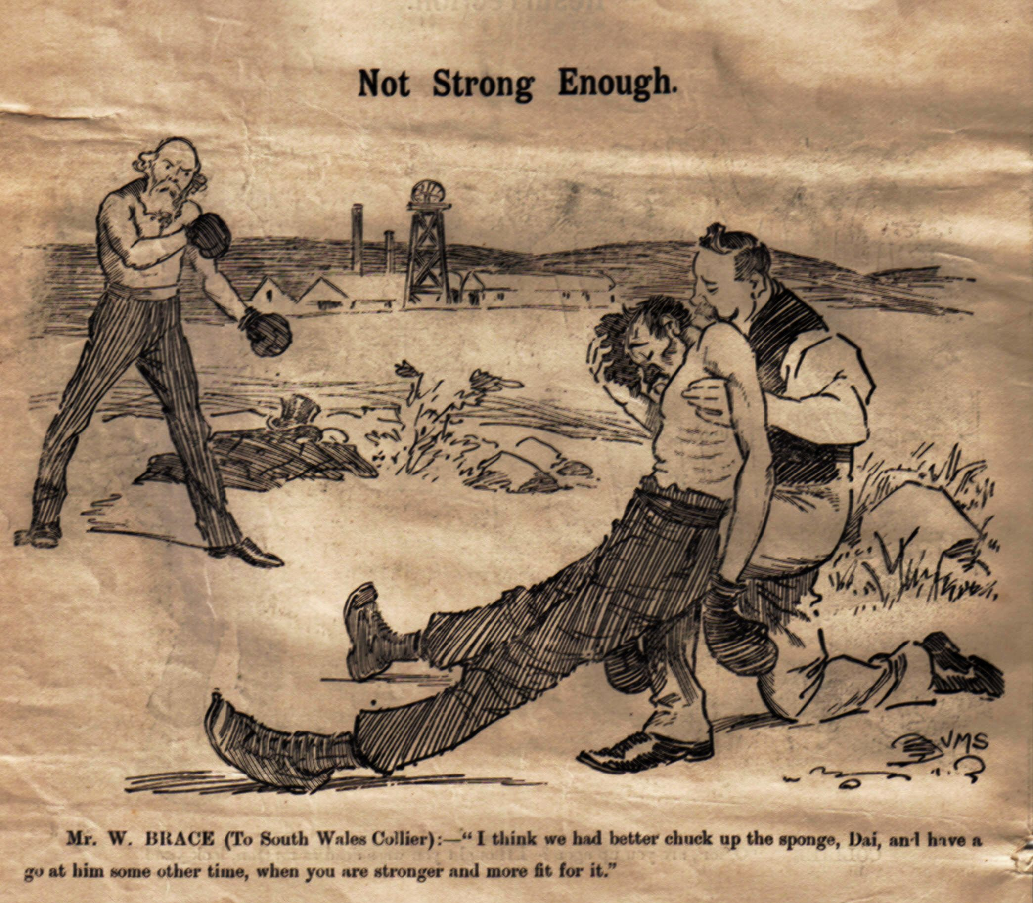 Cartoon originally published in the Western Mail (Cardiff), 1898. Art and commentry by Joseph Morewood Staniforth